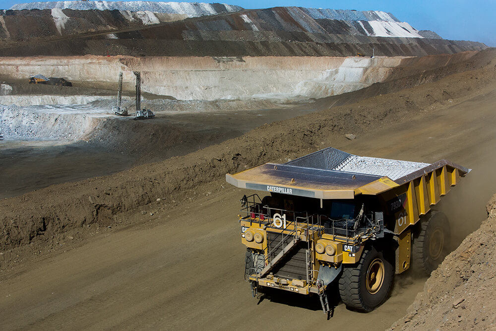 Tasiast pit in Mauritania, 2014.